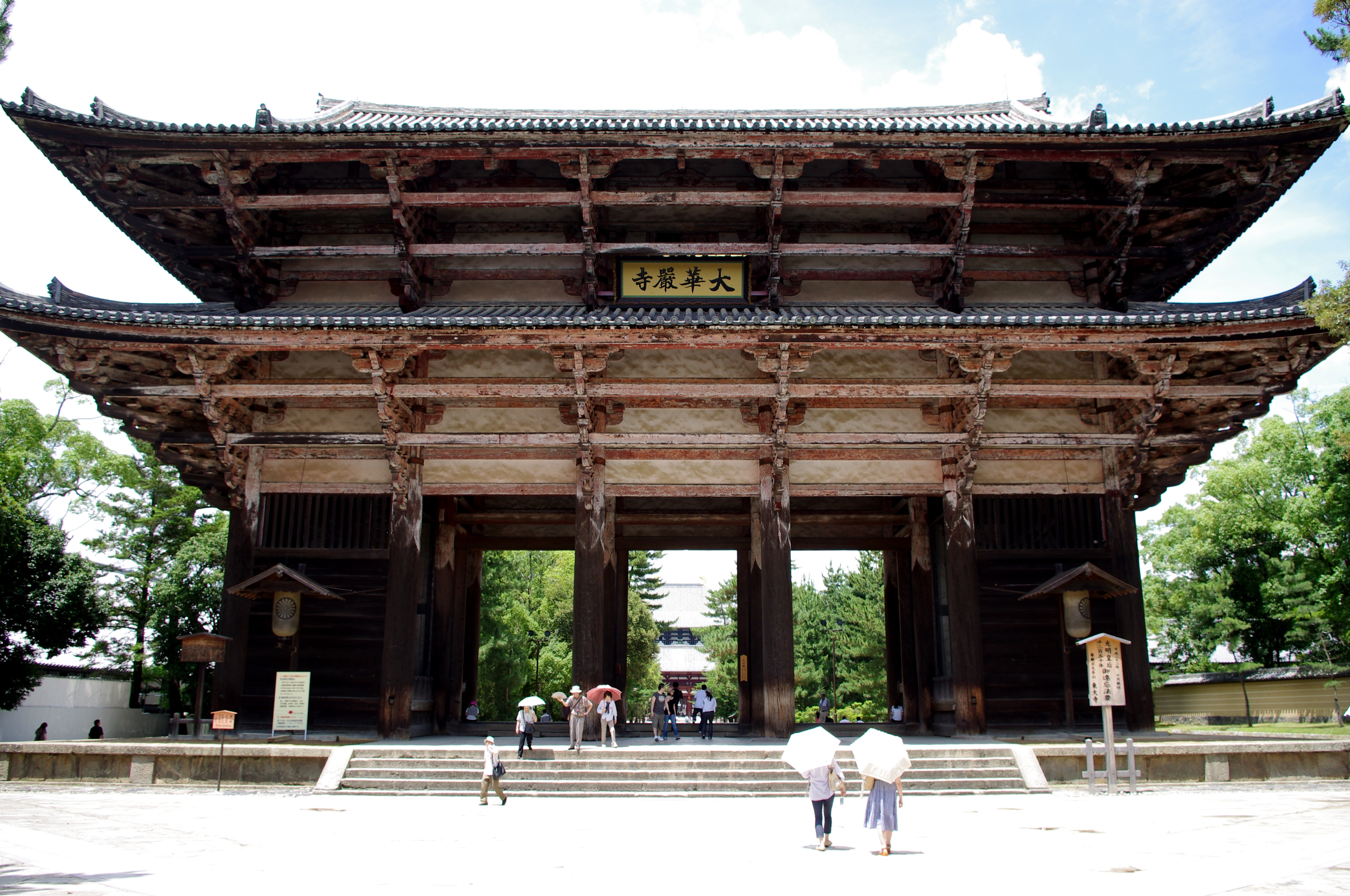 Nandaimon (Great South Gate) of Todaiji Temple in Nara, Japan